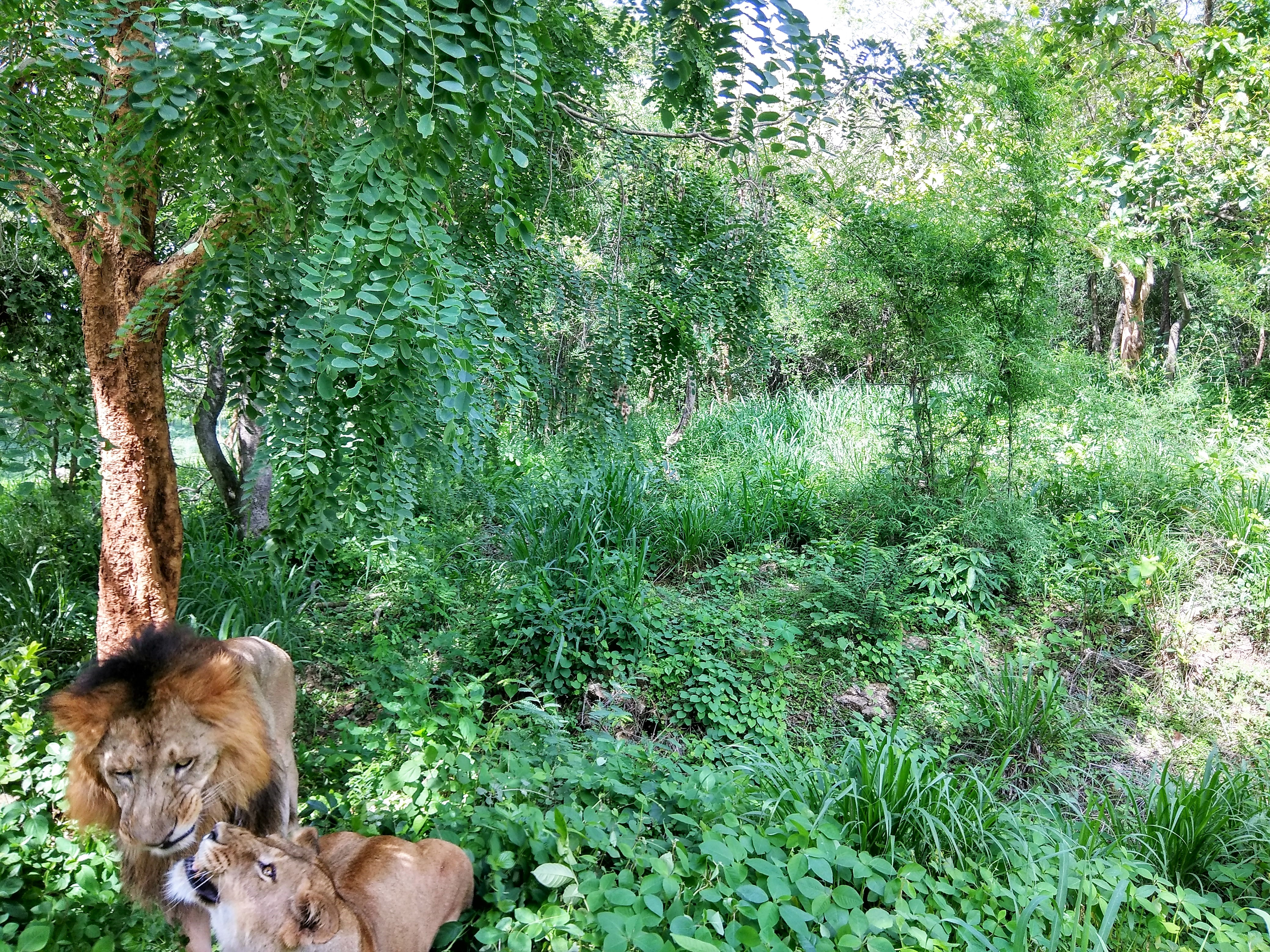 The Bannerghatta Biological Park (Bengaluru, Karnataka). It is a popular tourist destination with a zoo, a pet corner, an animal rescue center, a butterfly enclosure, an aquarium, a snake house and a safari park.